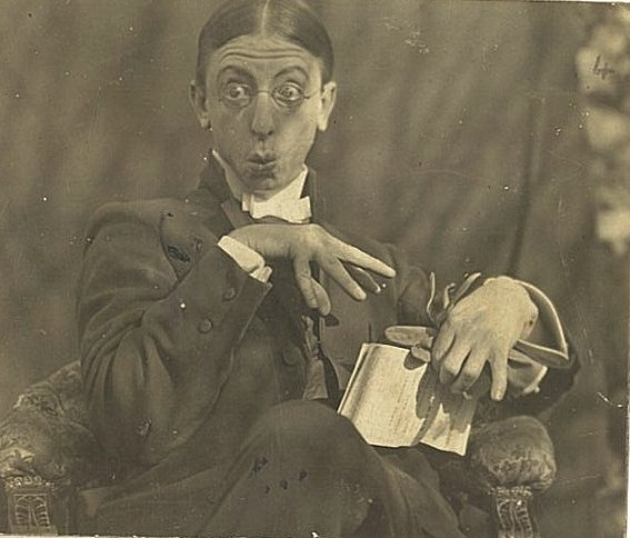 Format: Photograph Find more detailed information about this photograph: .au/item/itemDetailPaged.aspx?itemID=457999 Search for more great images in the State Library's collections: .au/search/SimpleSearch.aspx From the collection of the State Library of New South Wales